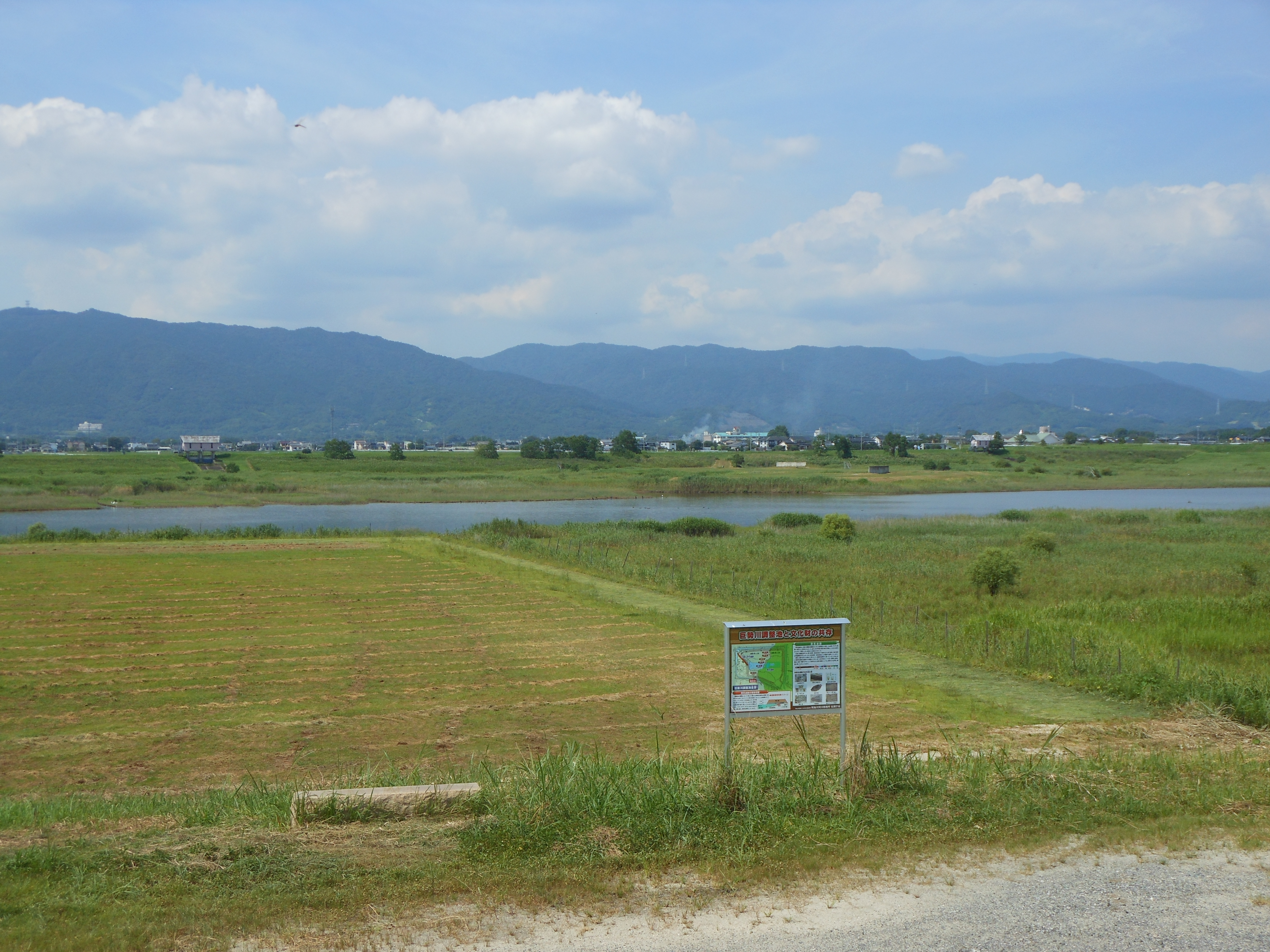 Higashimyō Site at Regulating pond of Kose River, in Saga city. It is six shell midden sites stored in the ground.